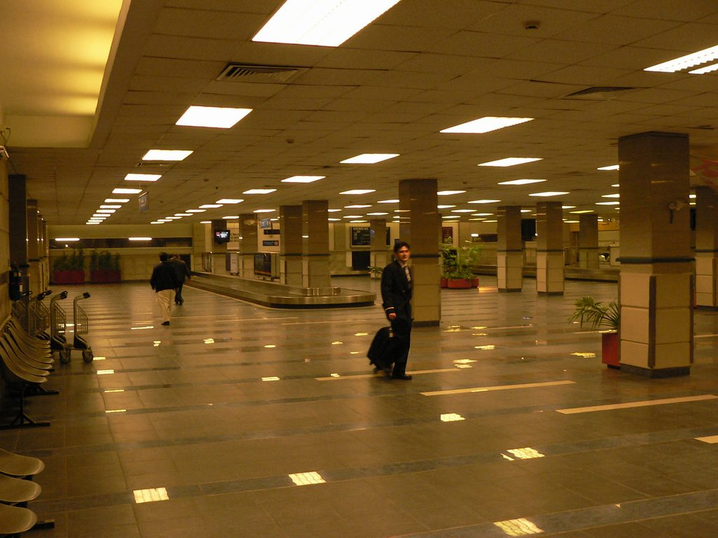 The arrival area at Benazir Bhutto International Airport. Photo by Waqas Usman. More images at and